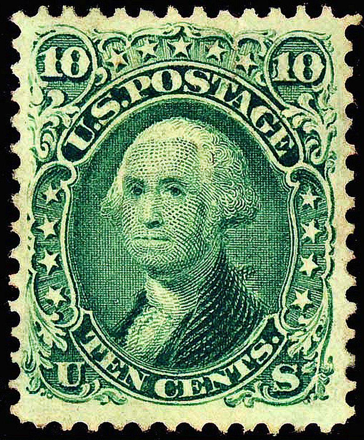 George Washington postage stamp, 1861 issue, 10c